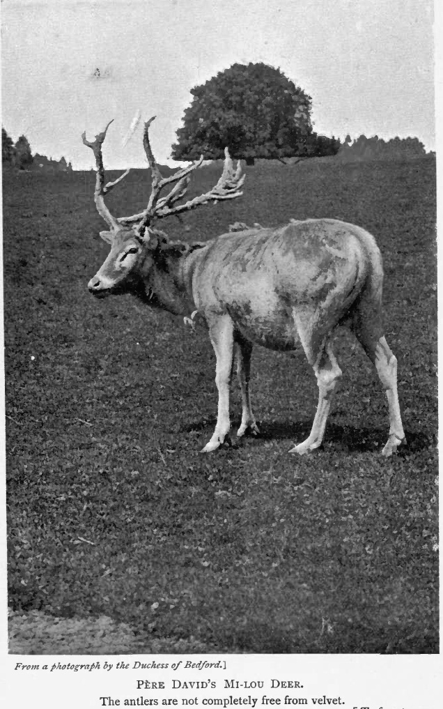 Pere David's Deer , Elaphurus davidianus